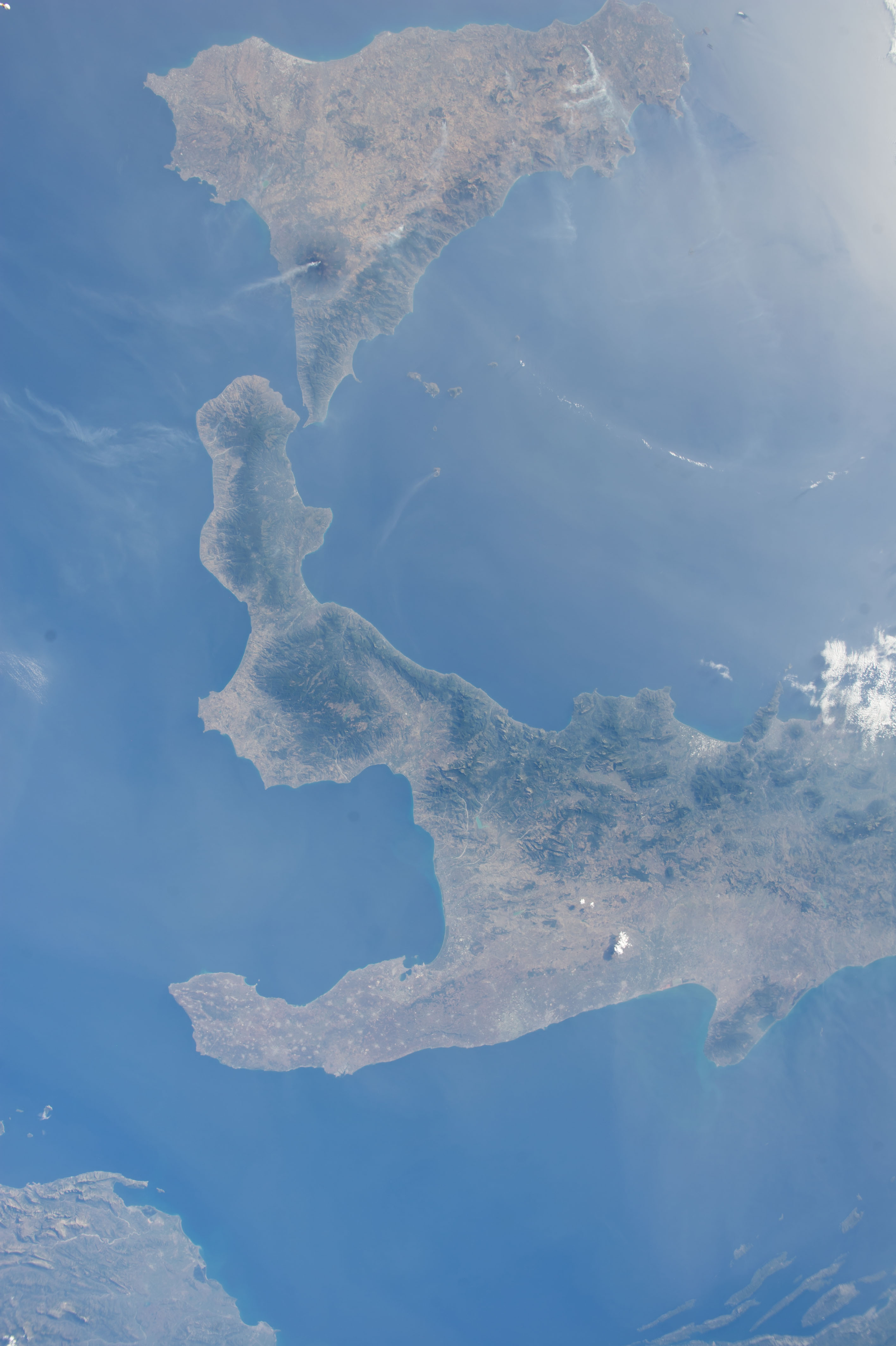 One of the Expedition 40 crew members aboard the International Space Station, flying 225 nautical miles above Earth, recorded this image over southern Italy on Aug. 13, 2014. South is on the left side of the picture. Italy's "boot" and Sicily are featured in the 28mm image.